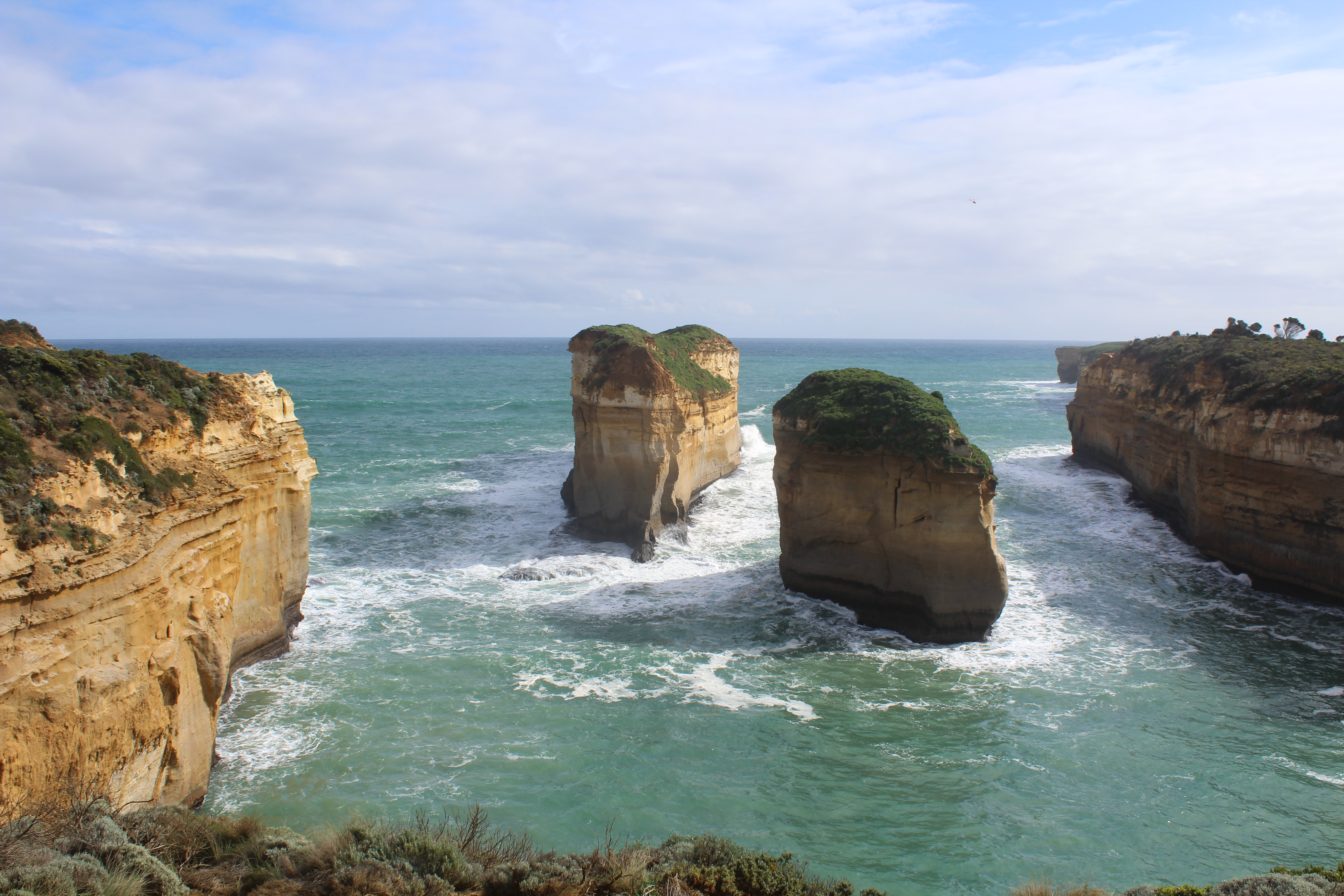 Remnants of the Island Archway, part of the Twelve Apostles Maritime National Park, Australia. Google Earth shows that these two islands were linked, forming an archway in 2008, but by 2013, when this photo was taken, the archway had collapsed. This image was taken from Fulker Post MP02[1] (see gallery), a site whereby the general public are invited, as part of as Citizen Science project, to log the erosion process by submitting photographs to the Victoria University, Melbourne